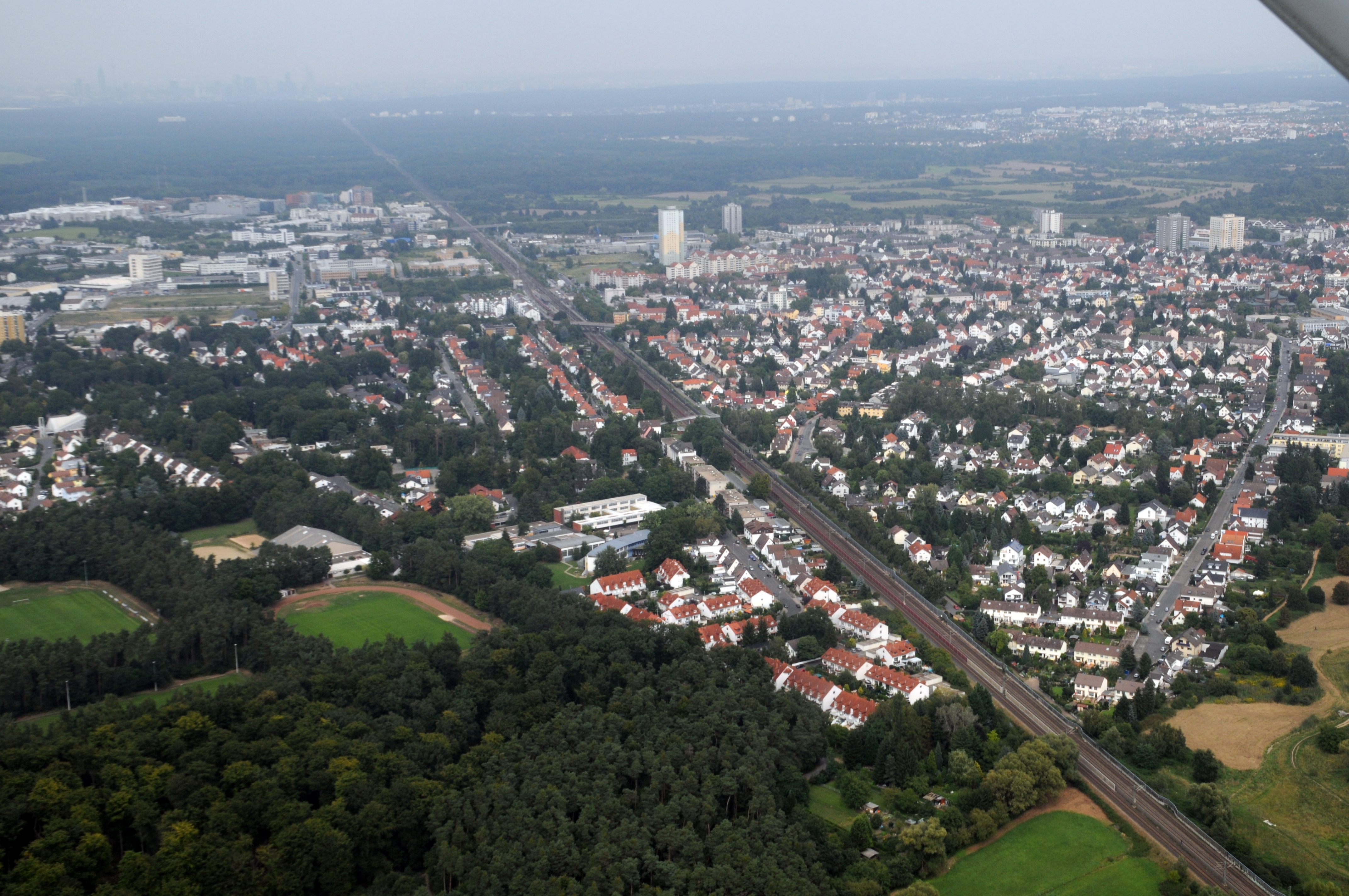 Langen, Hesse, Germany, aerial photograph